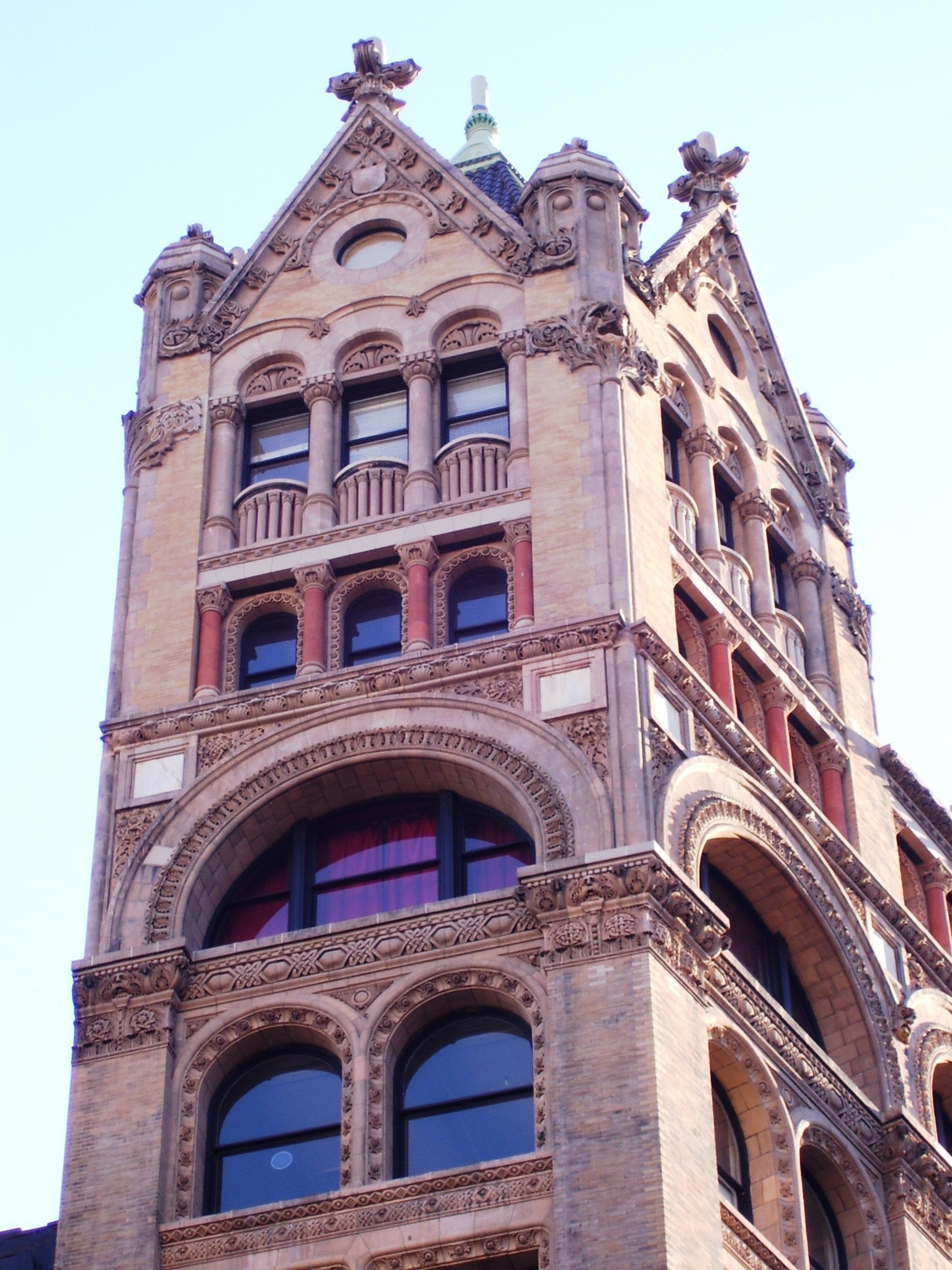 The top of the MacIntyre Building at 874 Broadway on the corner of East 18th Street in the Flatiron District of Manhattan, New York City, designed by R.H. Robertson. The building lies within the Ladies' Mile Historic District.